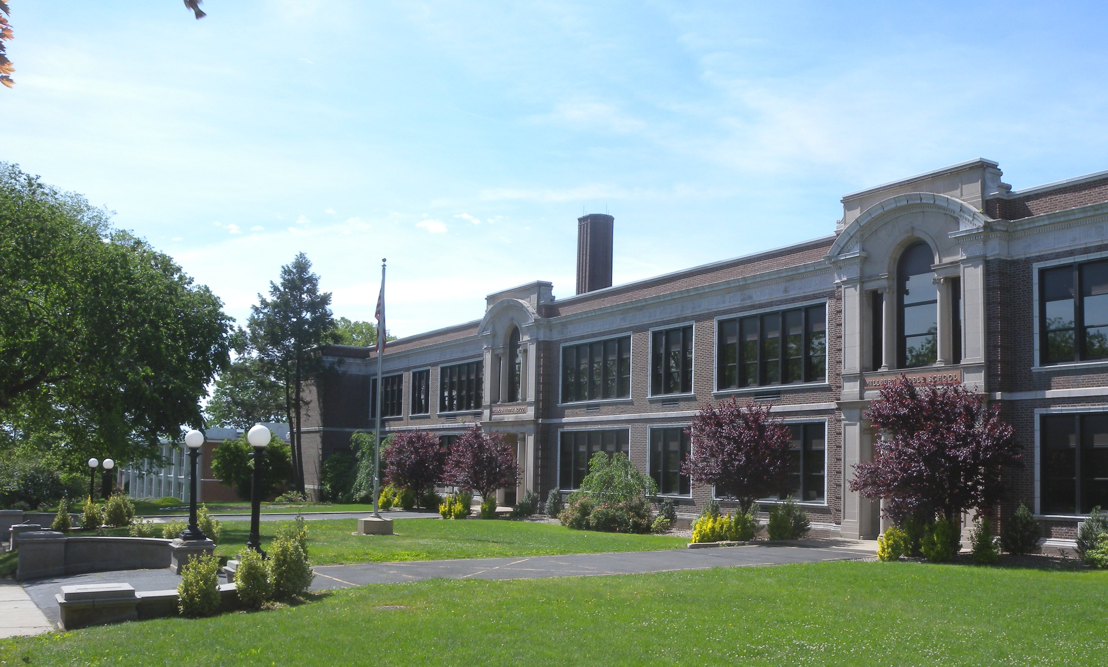 Looking south at Millburn Middle School on a sunny morning. See also File:Millburn Middle Sch jeh.JPG.